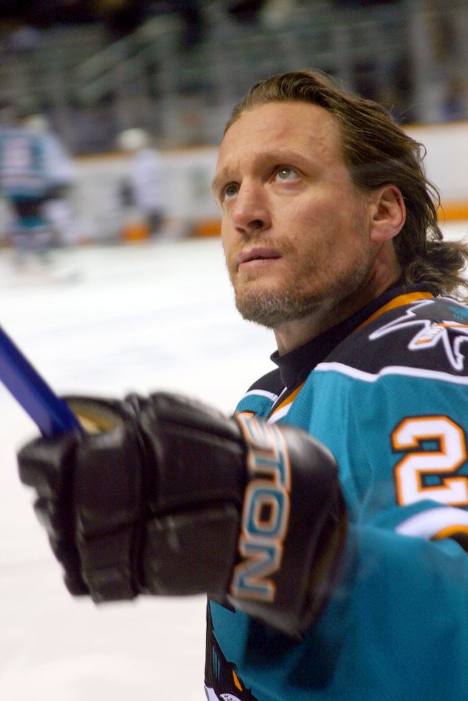 Jeremy Roenick, ice hockey player of the San Jose Sharks